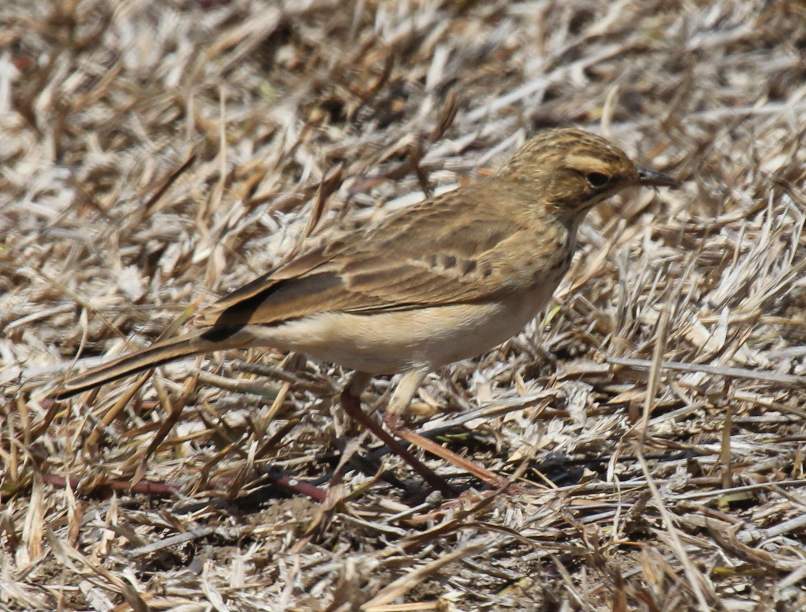 Long-billed Pipit (Anthus similis) near Kruger National Park, South Africa